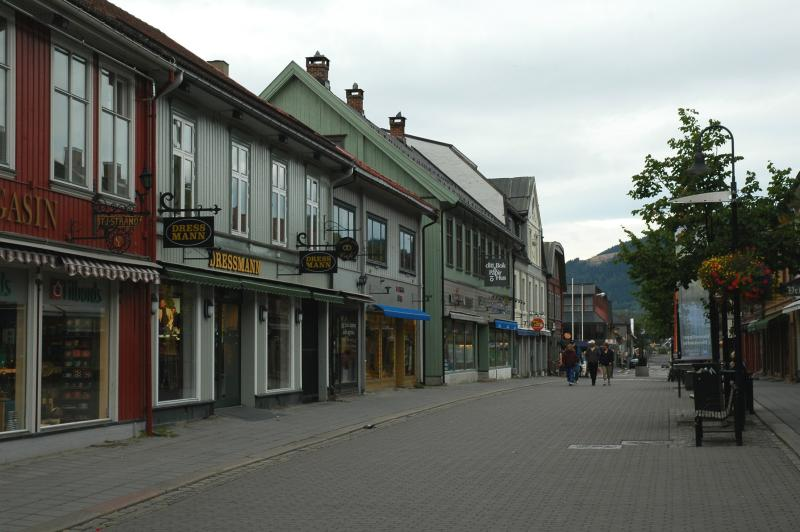 Storgata, Lillehammer, Norway.